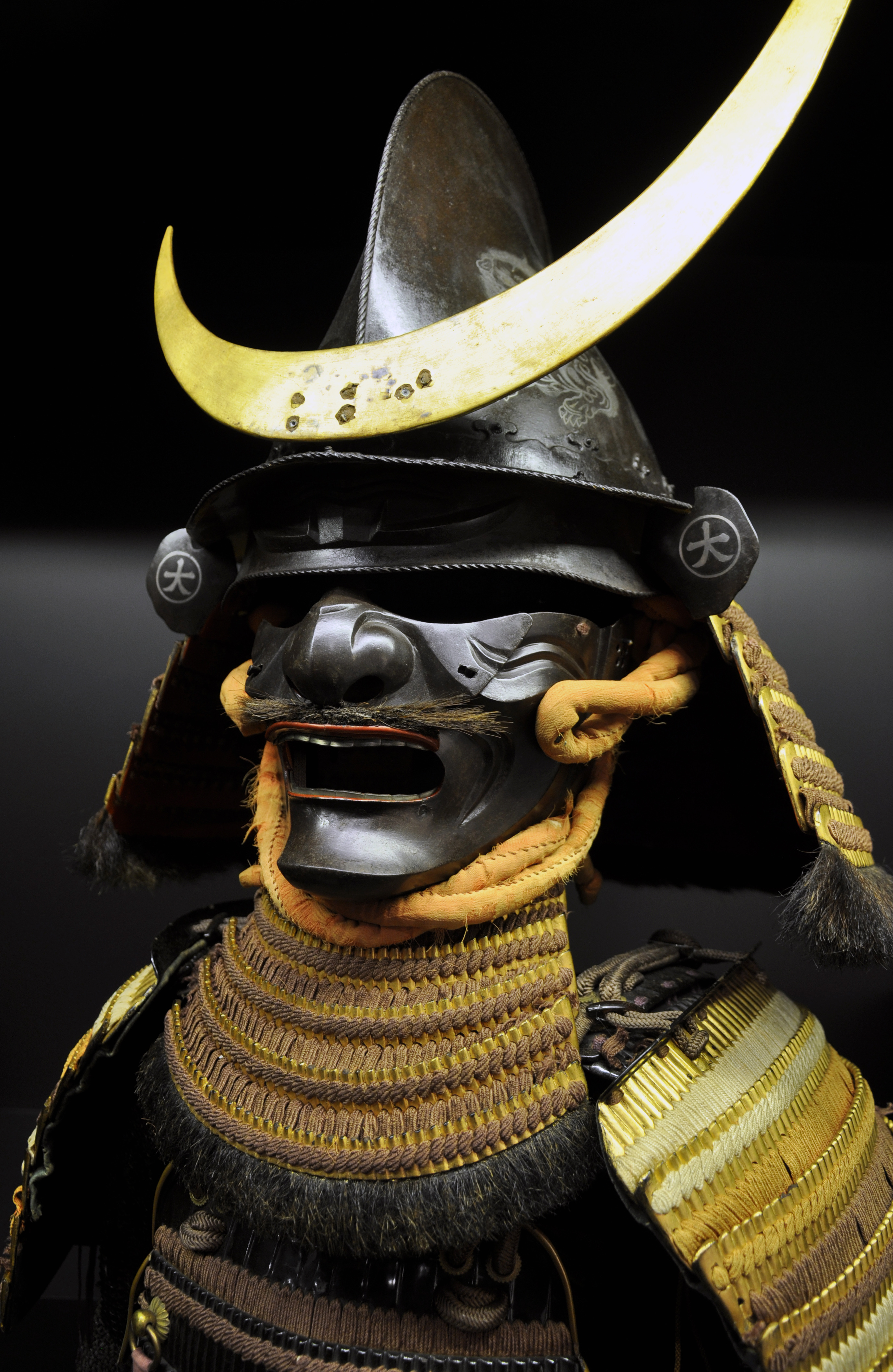 Helmet and half-face mask (menpo), Japan . Ann and Gabriel Barbier-Mueller Museum, Dallas (Texas) ; the photograph was taken during an exhibition in the Musée des Arts Premiers in Paris.